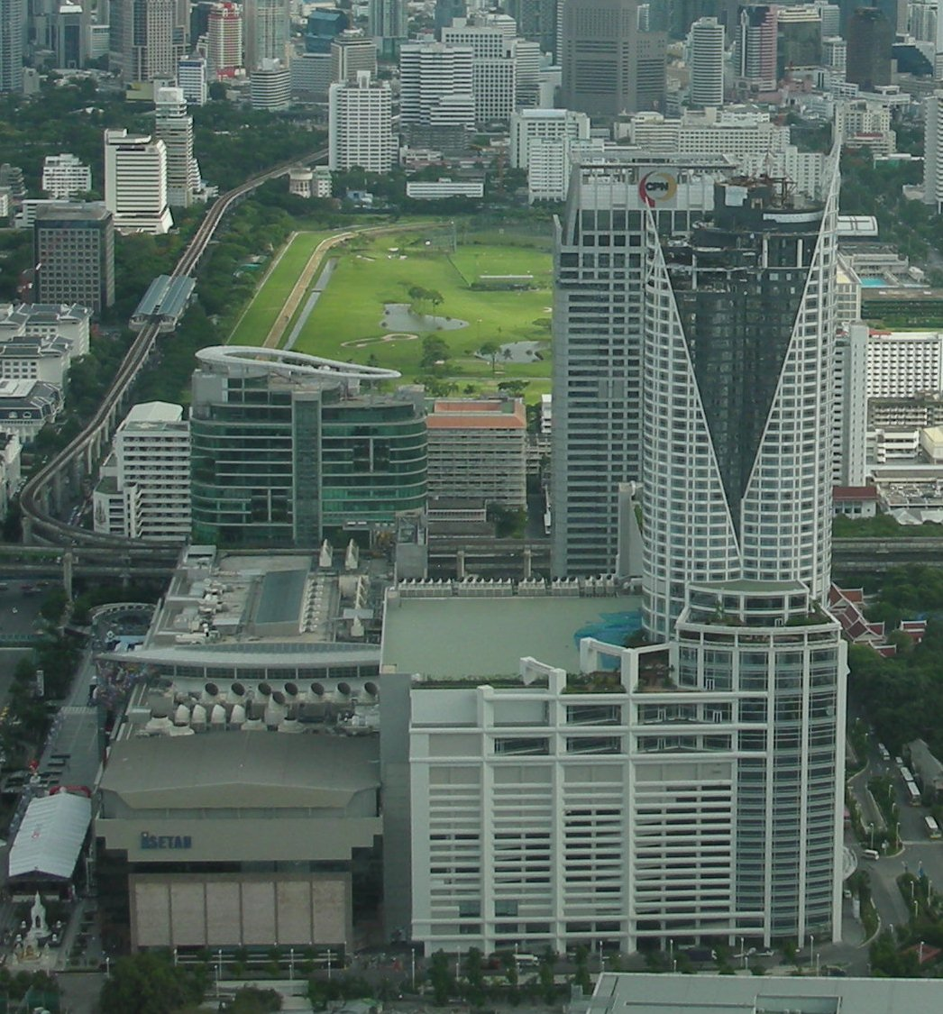 The Centara Grand Hotel, taken from Baiyoke Tower 2